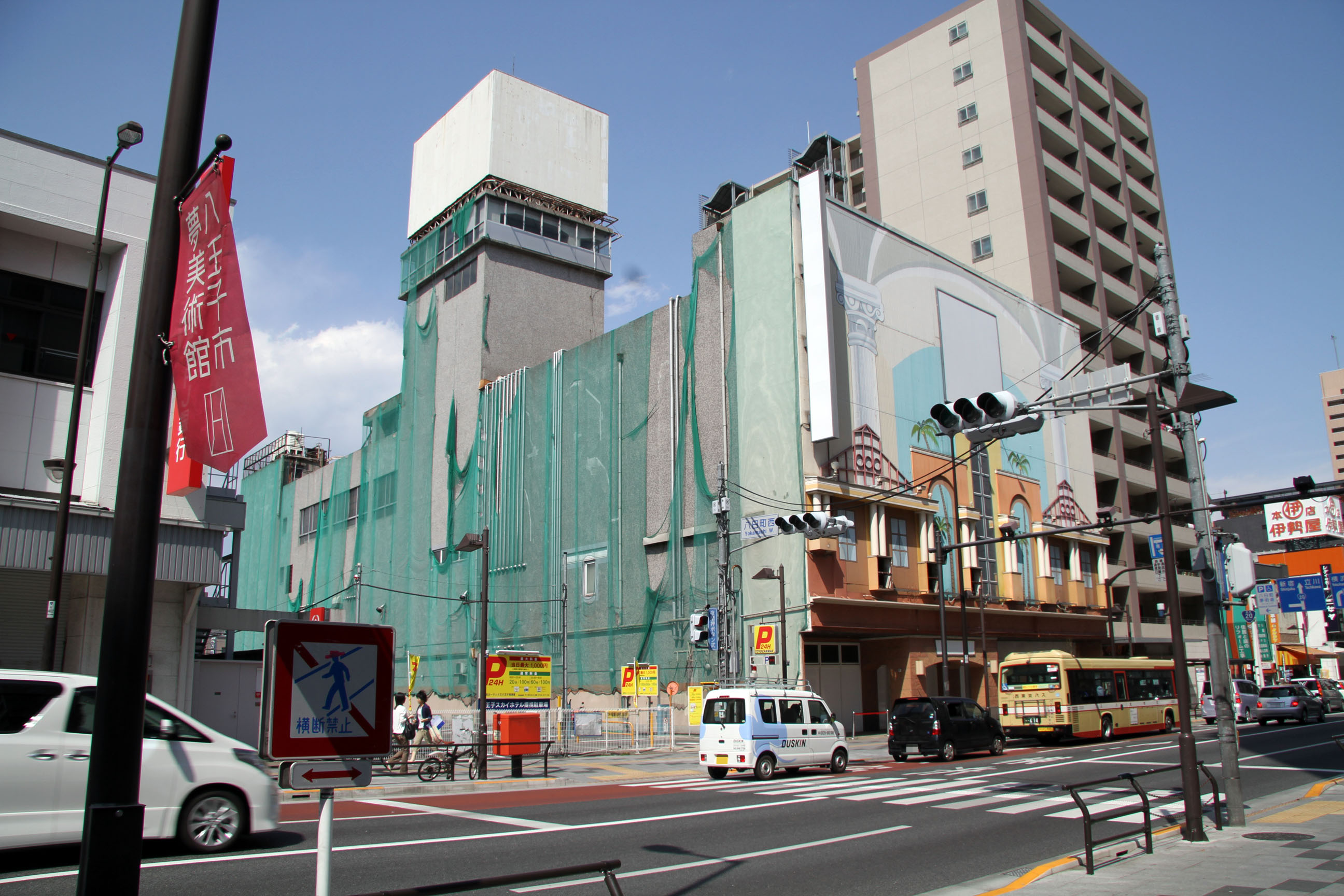 Ex-Chujitsuya store, Yokamachi, Hachioji, Tokyo, Japan